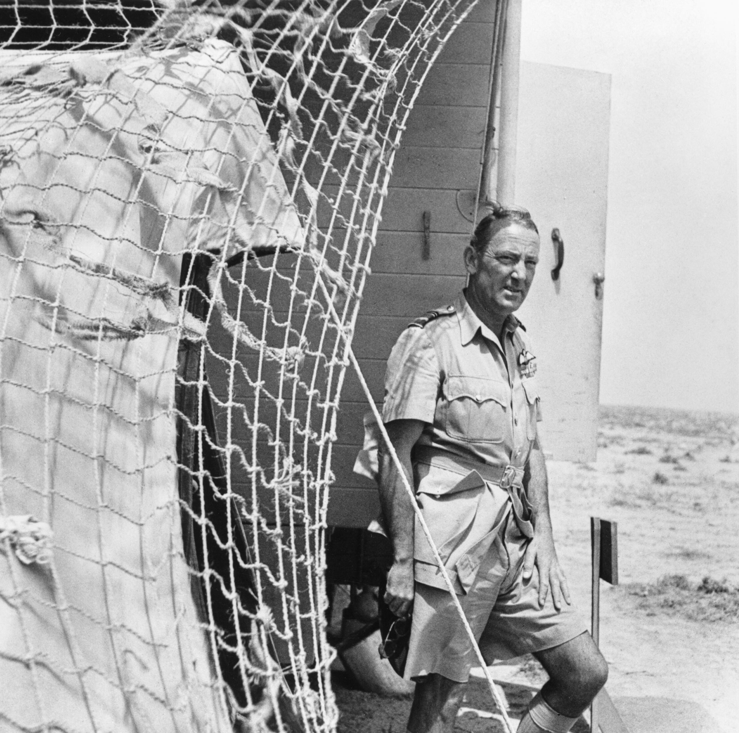 Cecil Beaton Photographs- Political and Military Personalities Military Personalities: Three quarter length portrait of Air Vice Marshal Sir Arthur Coningham, Commander of the Western Desert Air Force, standing outside his mobile headquarters, a caravan in the Western Desert.